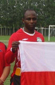 Emmanuel Olisadebe - photo cropped from this one